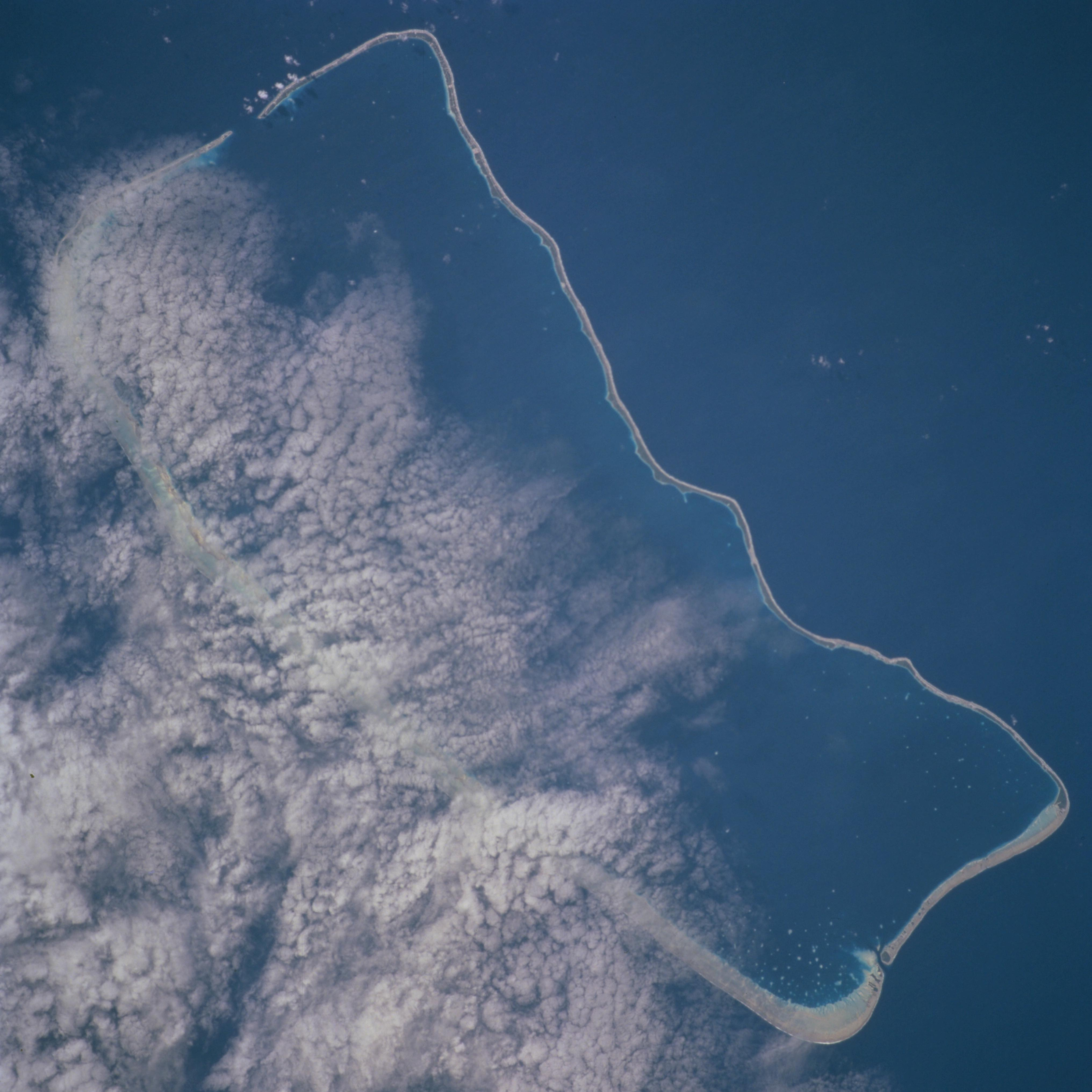 NASA Astronaut Image of Fakarava Atoll (Tuamotu Archipelago, French Polynesia) in the Pacific Ocean